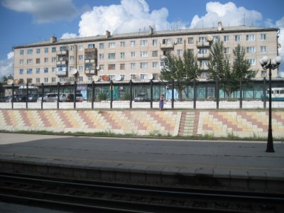 Zabaikalsk, Russia